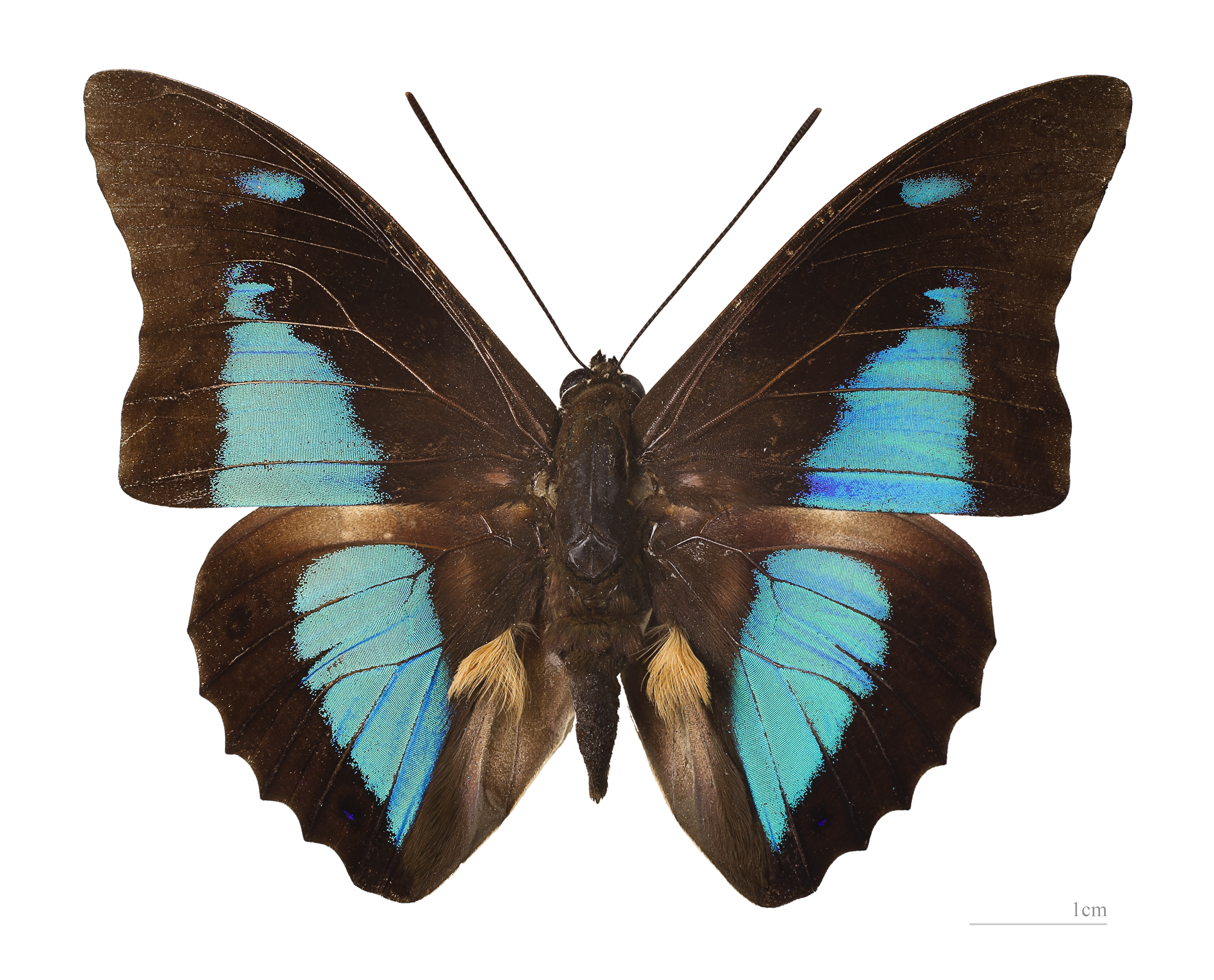 ♂ - Dorsal side Locality: Santarèm, Pará, Brasil